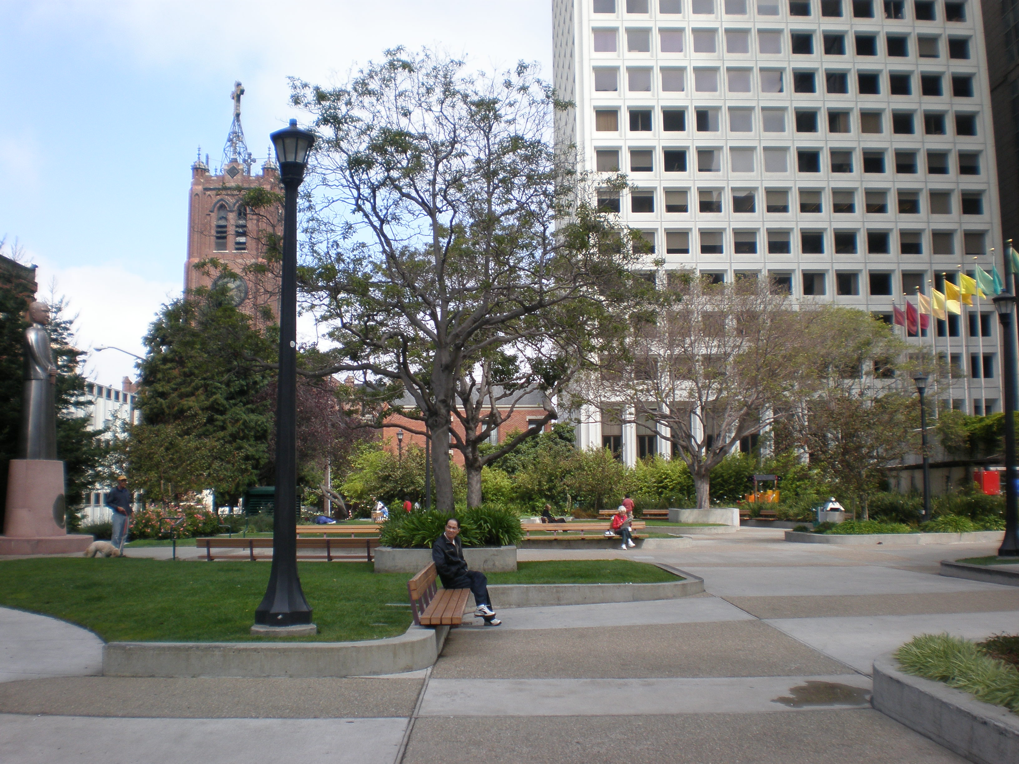 St. Mary's Square in San Francisco. The Old Cathedral of Saint Mary of the Immaculate Conception can be seen in the background.